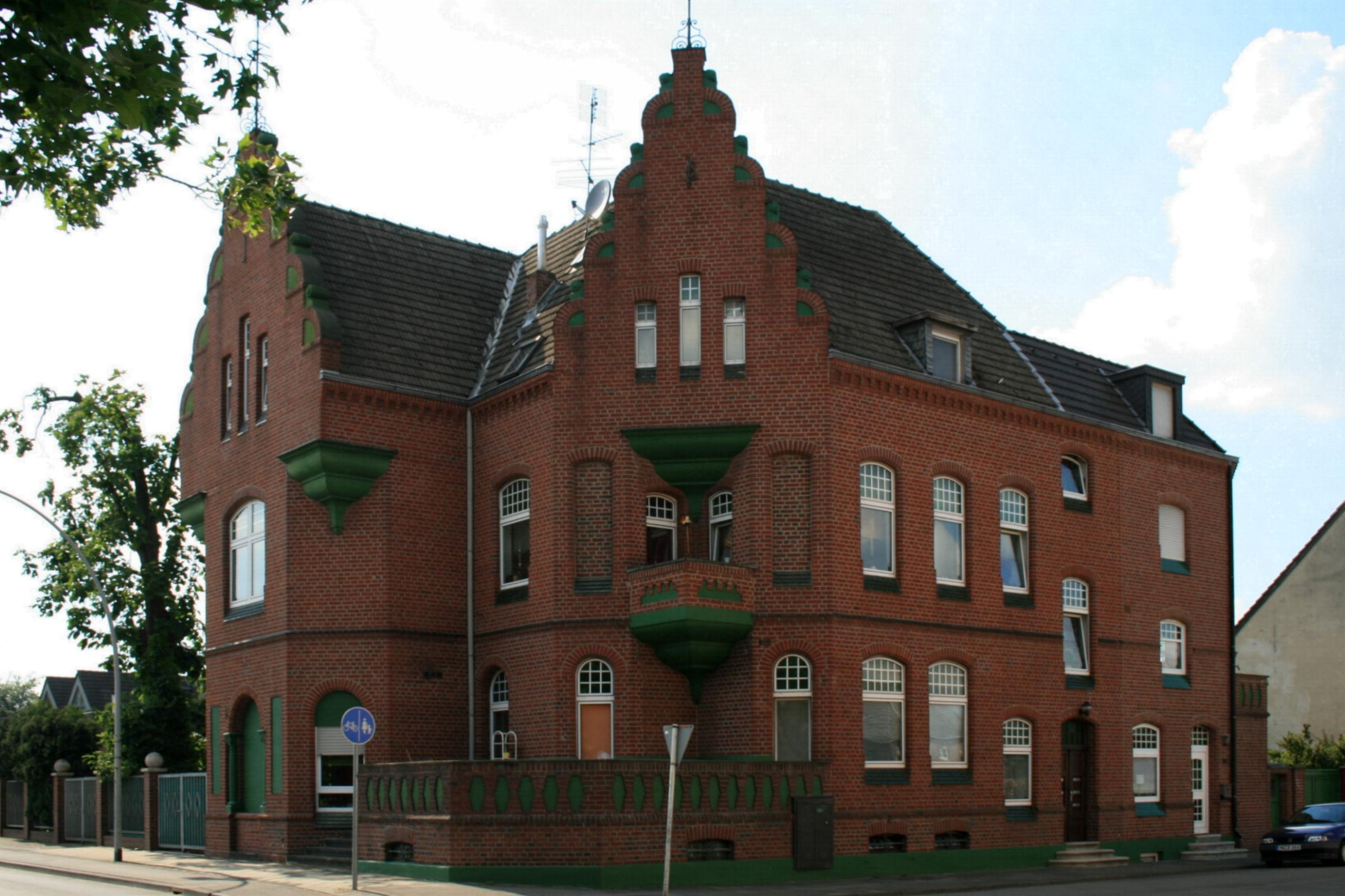 Cultural heritage monument No. M 046 in Mönchengladbach